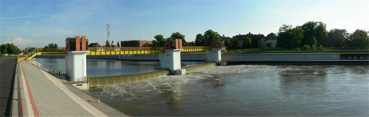 Regulation locks on the Oder river at Koźle.